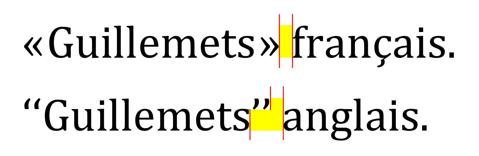 Excessive white space with curved quotation marks.